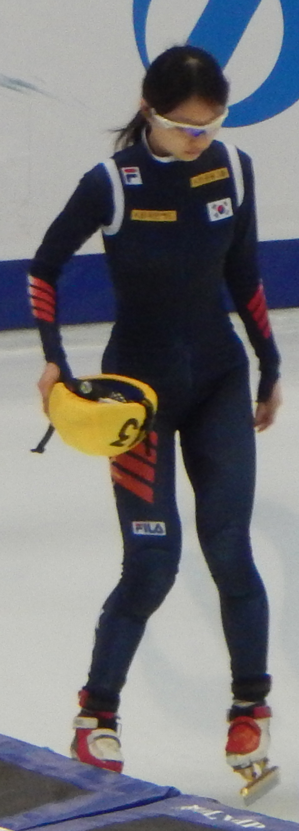 Choi Min-jeong at 2015 World Championships